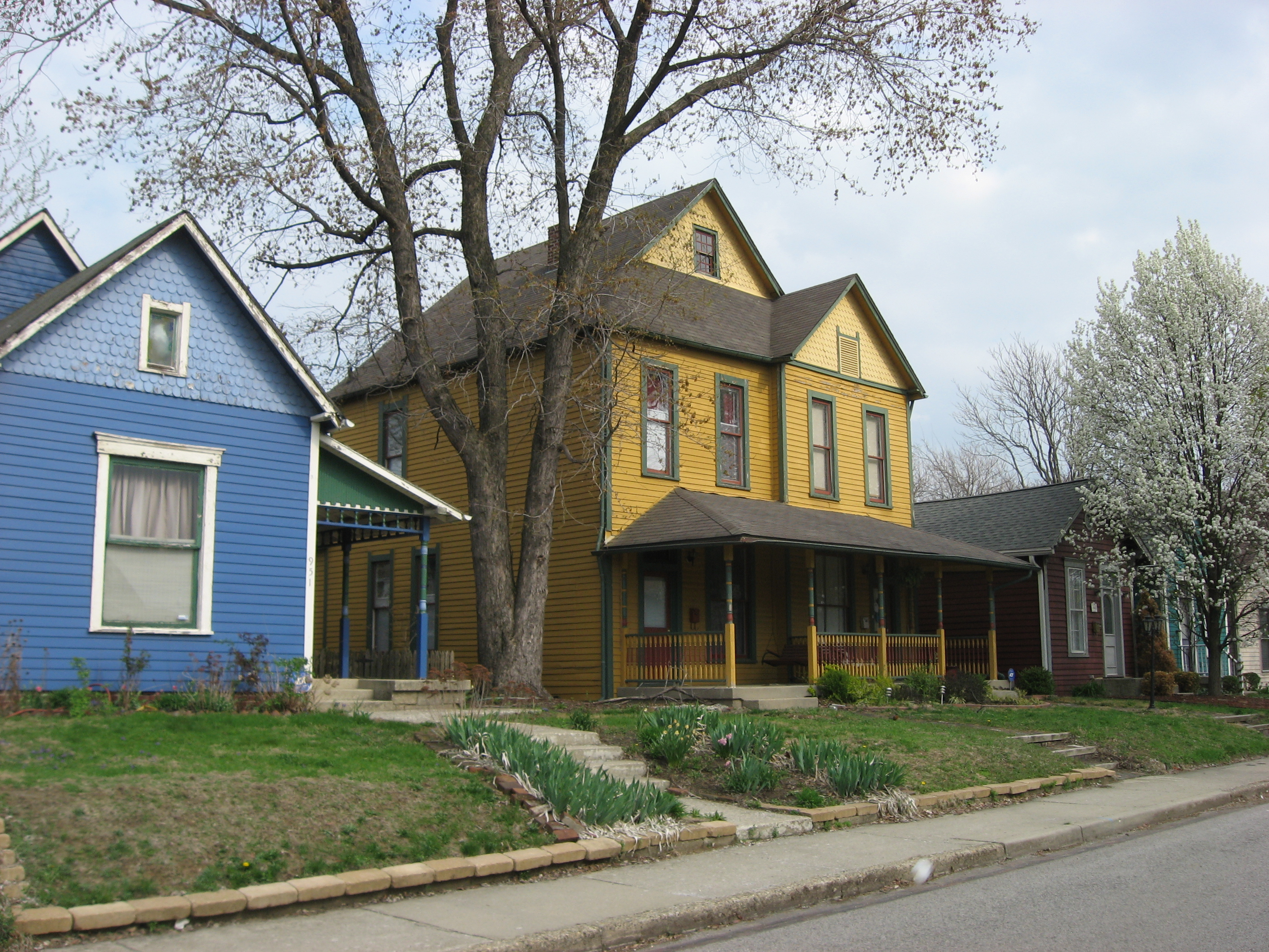 Houses on the eastern side of the 900 block of N. Camp Street in Indianapolis, Indiana, United States. This block is part of the Ransom Place Historic District, a historic district that is listed on the National Register of Historic Places.